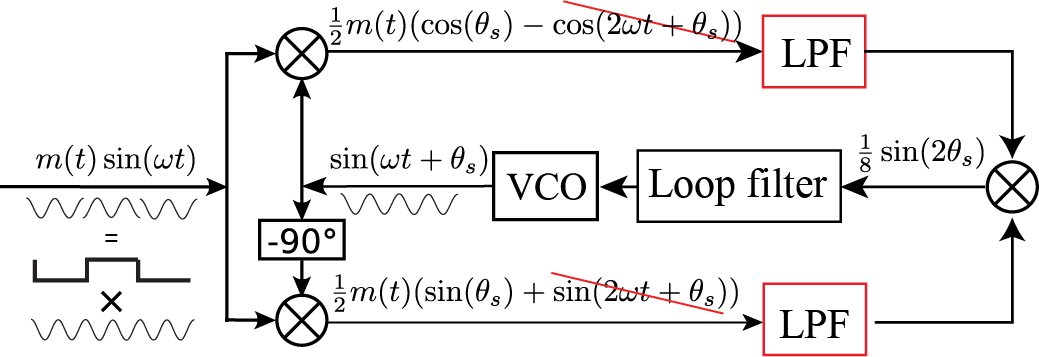 Block-scheme of Costas Loop after synchronization (locked)